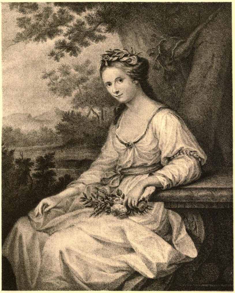 Anne Seymour Damer by Angelika Kauffmann